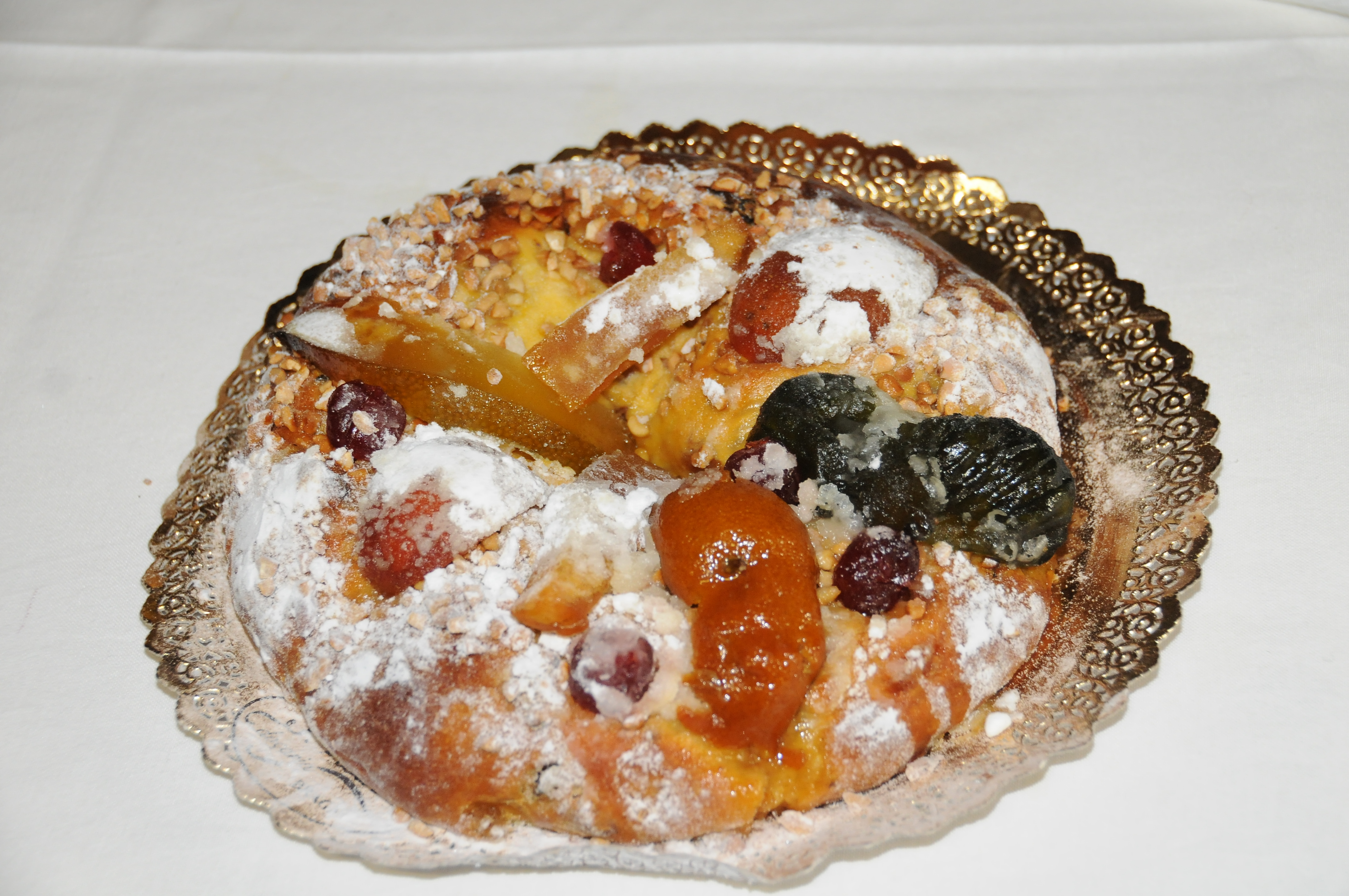 Christmas food of Portugal.